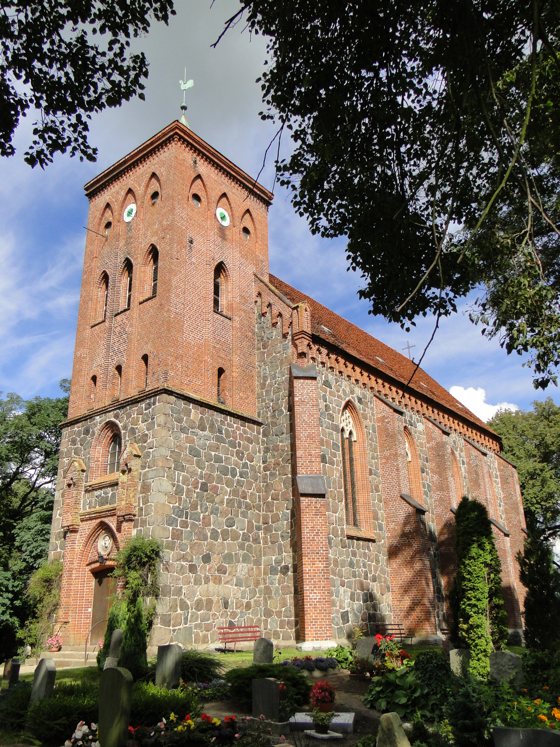 Church in Peckatel, district Mecklenburg-Strelitz, Mecklenburg-Vorpommern, Germany